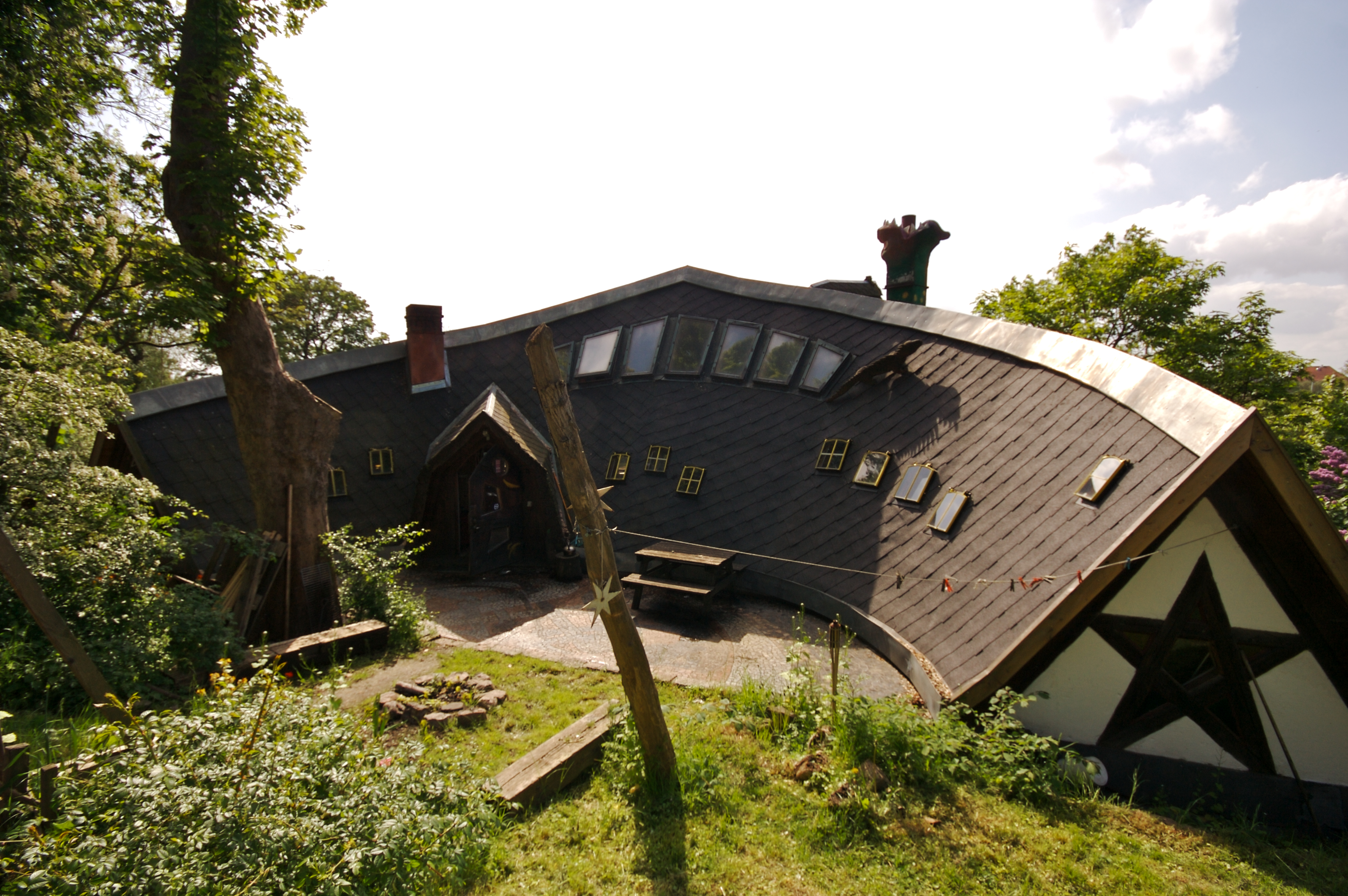 Fristaden Christiania: Banana house